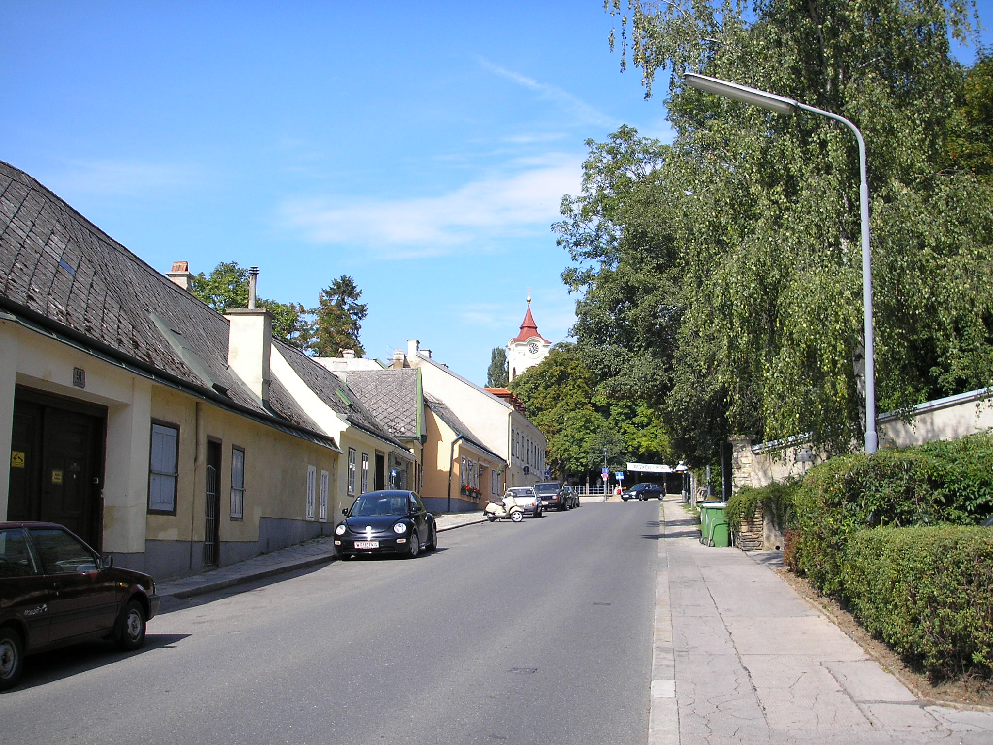 Image of the centre of Pötzleinsdorf, today part of the XVIII district of Währing in Vienna.